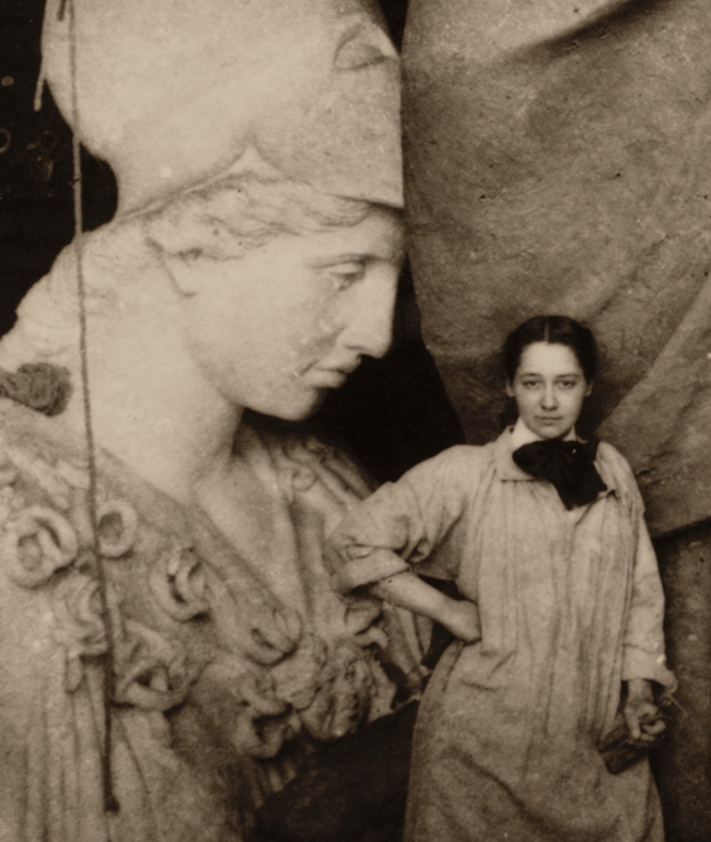 Citation: Enid Yandell with her sculpture of Pallas Athena, 1896 / unidentified photographer. Enid Yandell papers, 1878-1982. Archives of American Art, Smithsonian Institution.